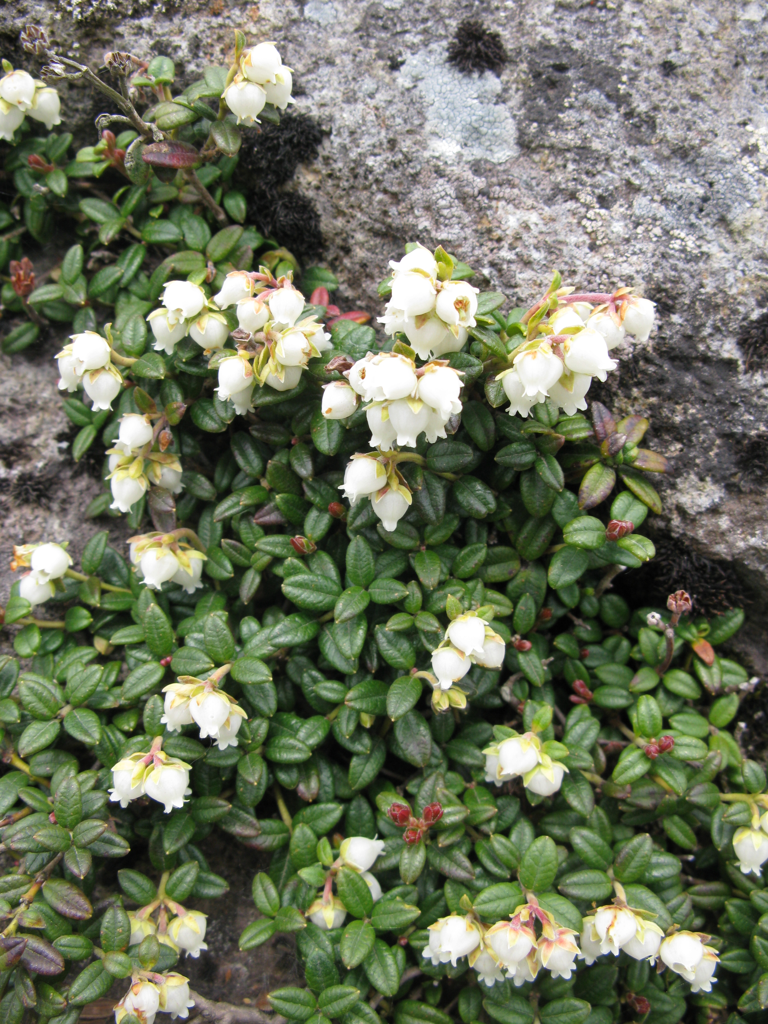 Pieris nana (Arcterica nana), Mt. Nishiazuma-yama, Fukushima pref., Japan